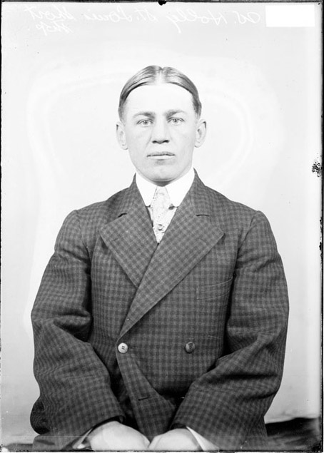 "Three-quarter length portrait of Ed. W. Holly, St. Louis baseball shortstop, wearing a suit and facing the camera, sitting in front of a light-colored backdrop in a room in Chicago, Illinois."